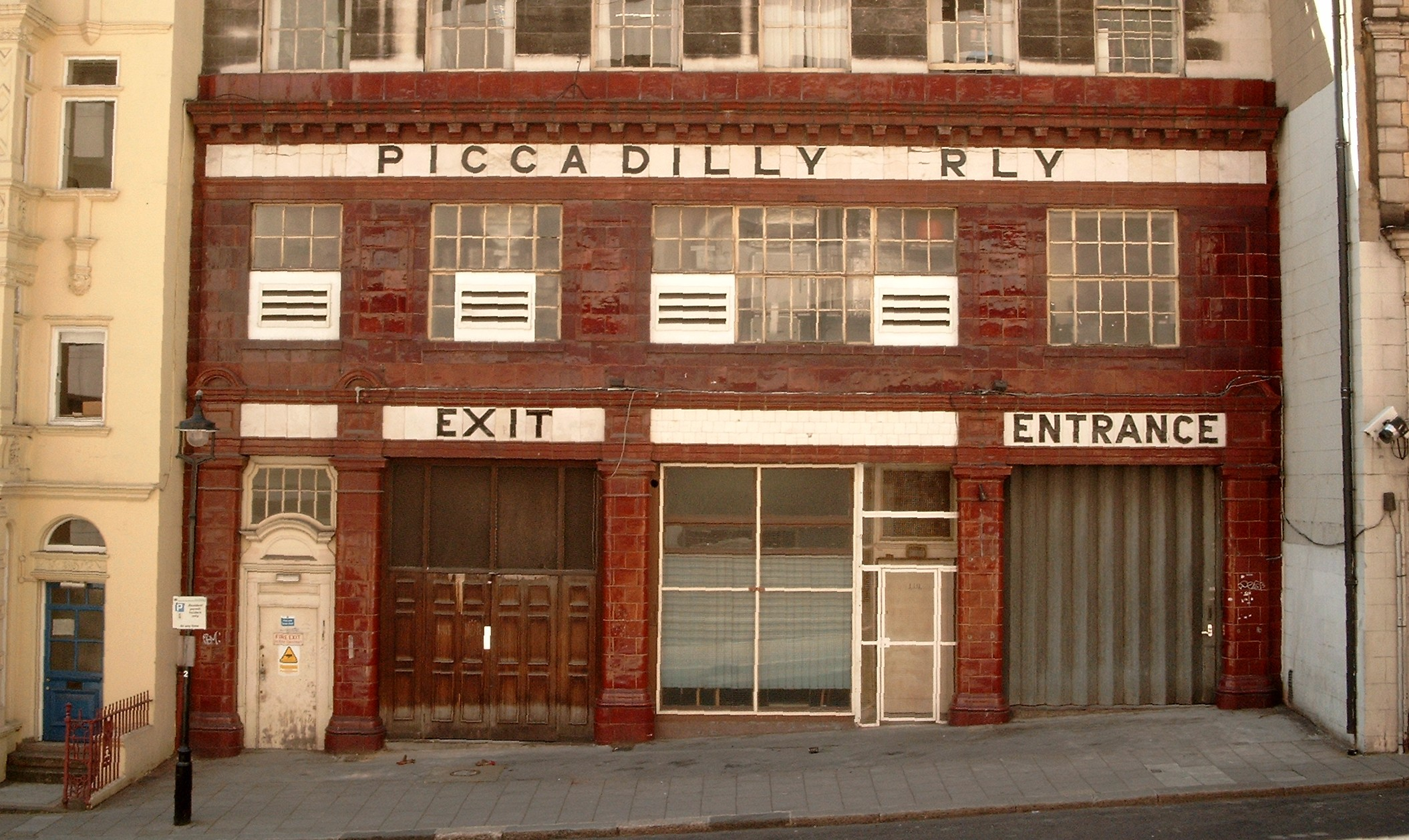 Former subway station Aldwych, Surrey Street Entrance